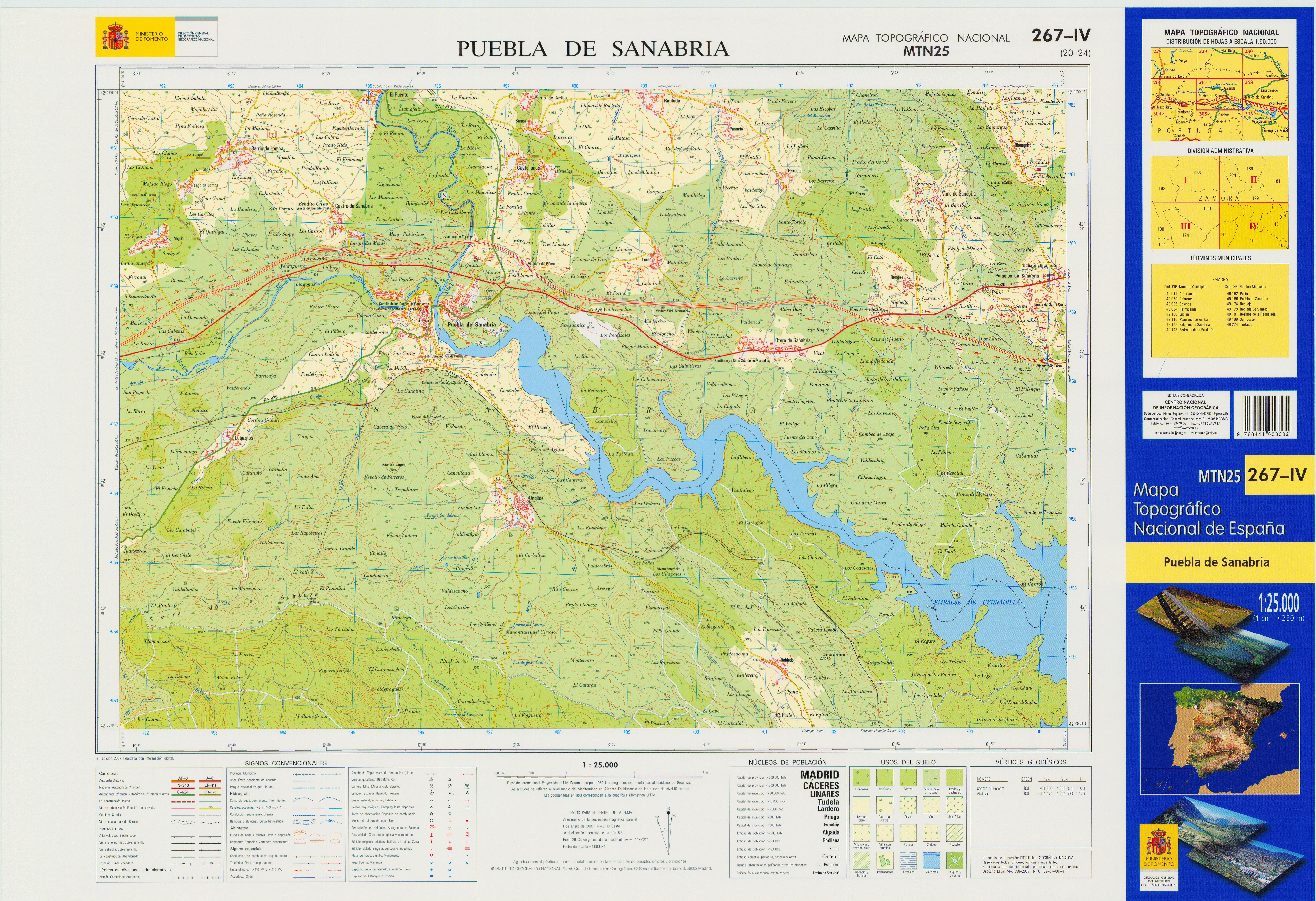 Fragment 0267c4 of the National Topographic Map of Spain in 2007 at a scale of 1:25000 printed and scanned with a resolution of 250 ppi. It shows Puebla de Sanabria.